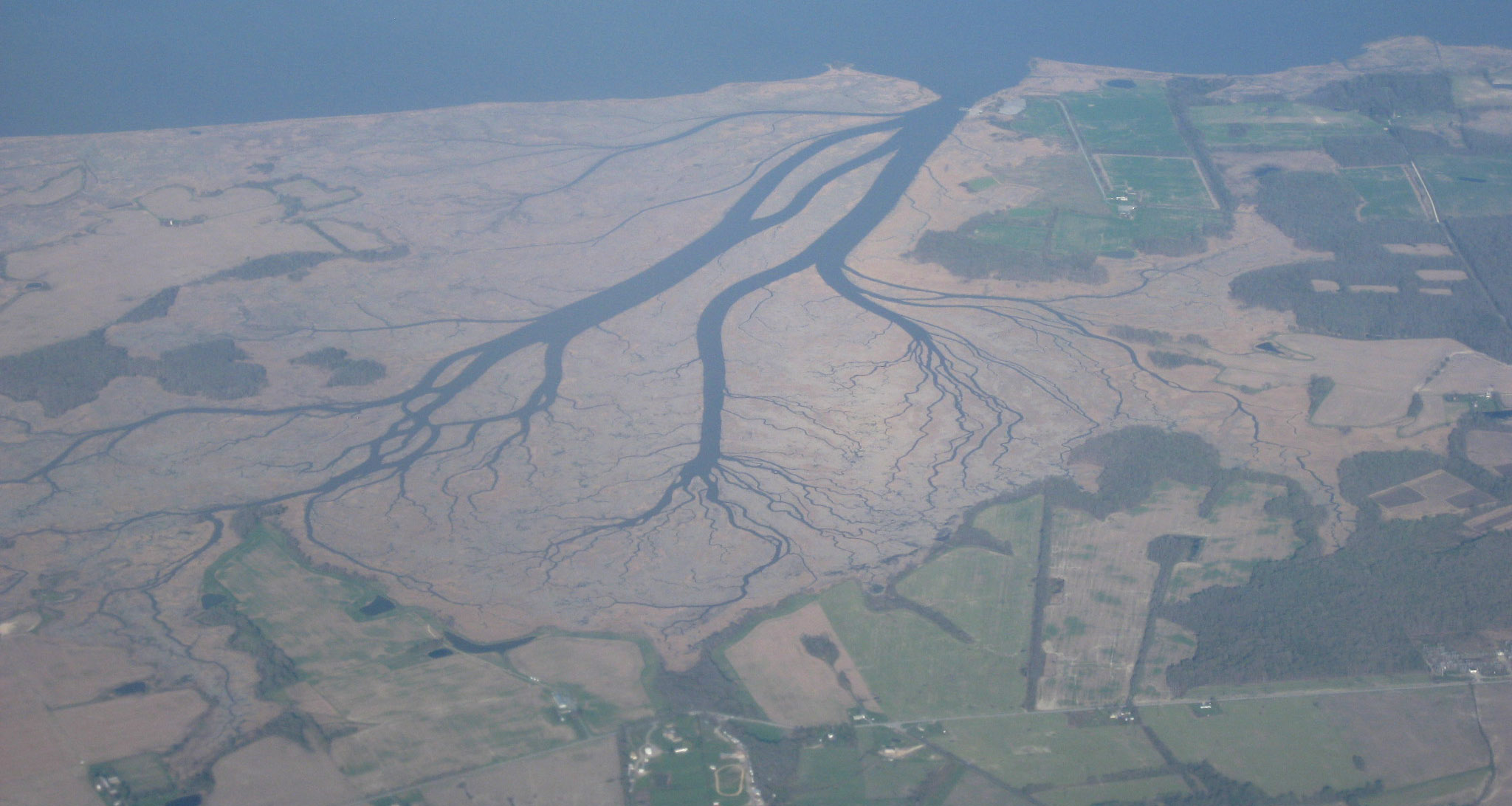 Oblique air photo of Cedar Swamp Wildlife Area, New Castle County, Delaware, April 2010, facing east. Contrast enhanced slightly.